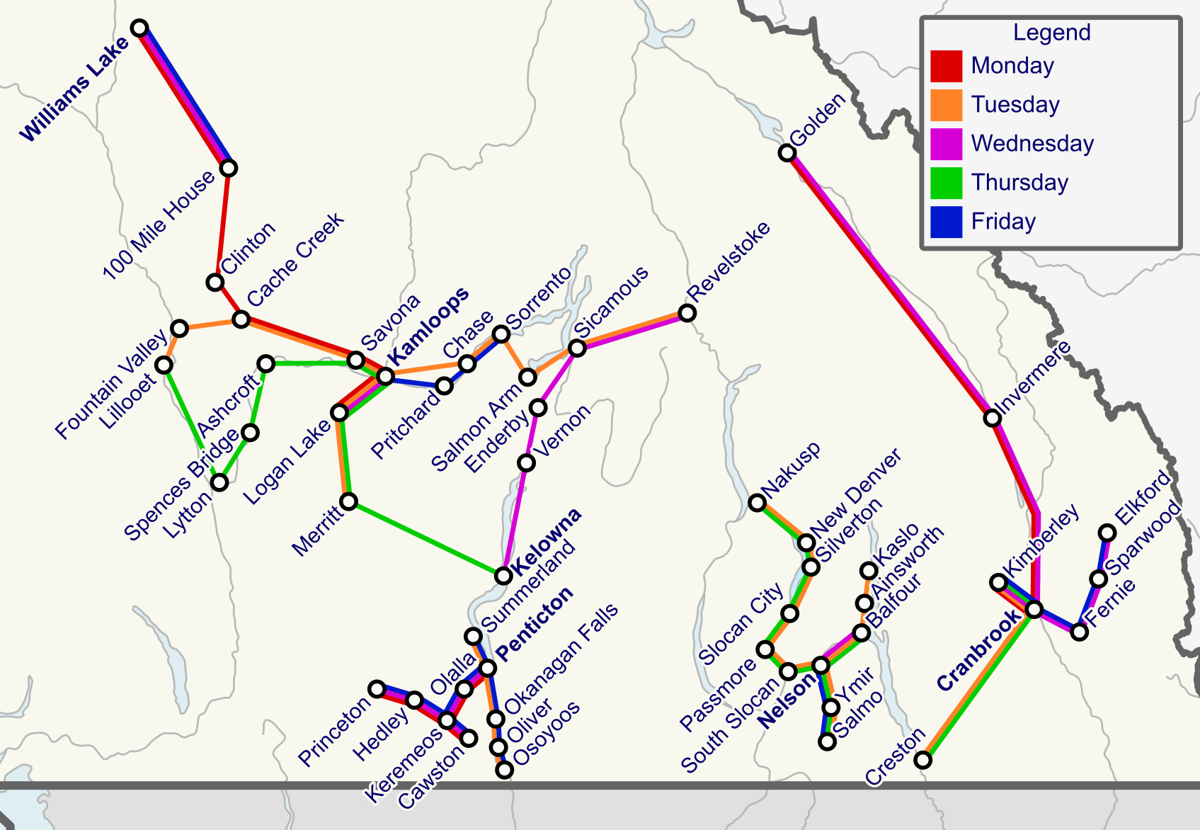 Corrected map of BC Transit Health Connections services in October 2019.